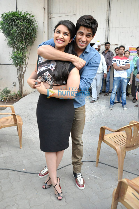 Parineeti & Sidharth promote 'Hasee Toh Phasee'